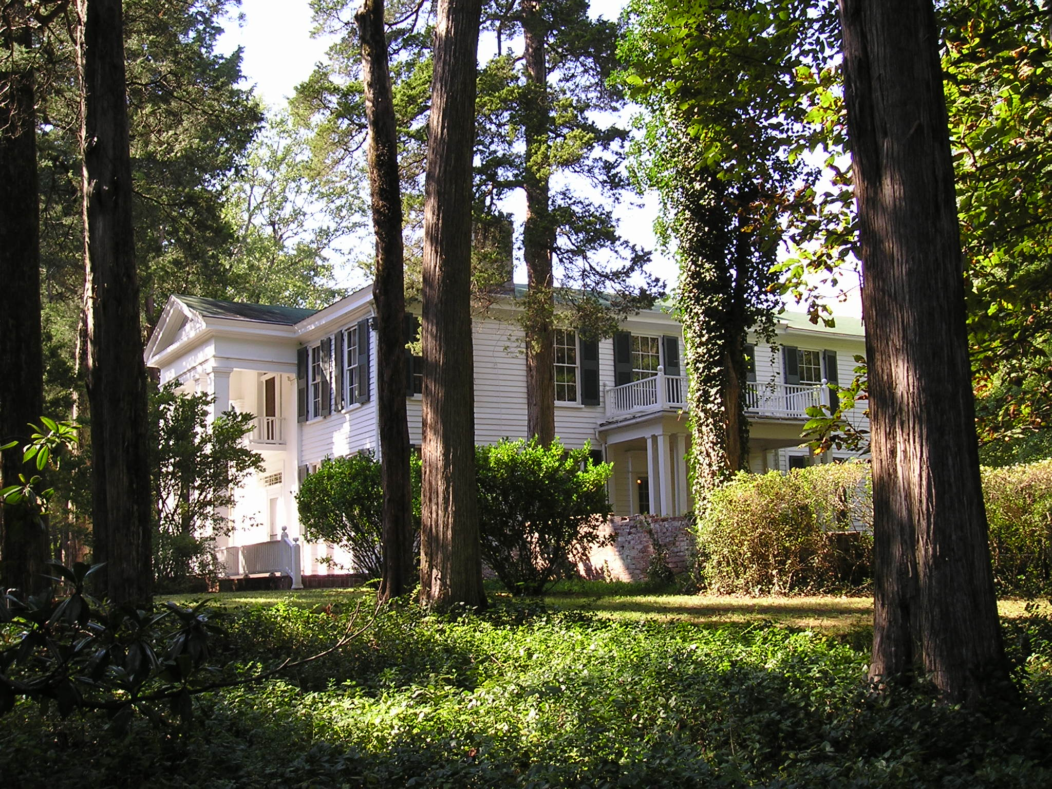 Rowan Oak, former home of William Faulkner in Oxford, Mississippi